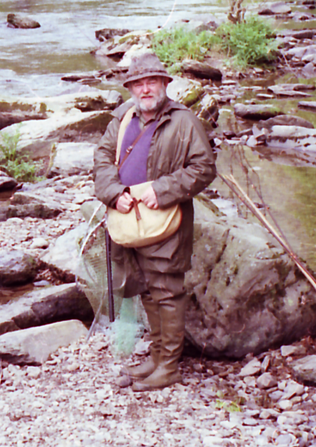 Peter Rolfe Vaughan fly fishing at Tarr Steps in Exmoor. This was an annual expedition for colleagues, close friends and family during the late May Bank holiday weekend.